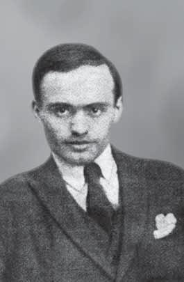 The photo of Croatian poet Antun Branko Šimić